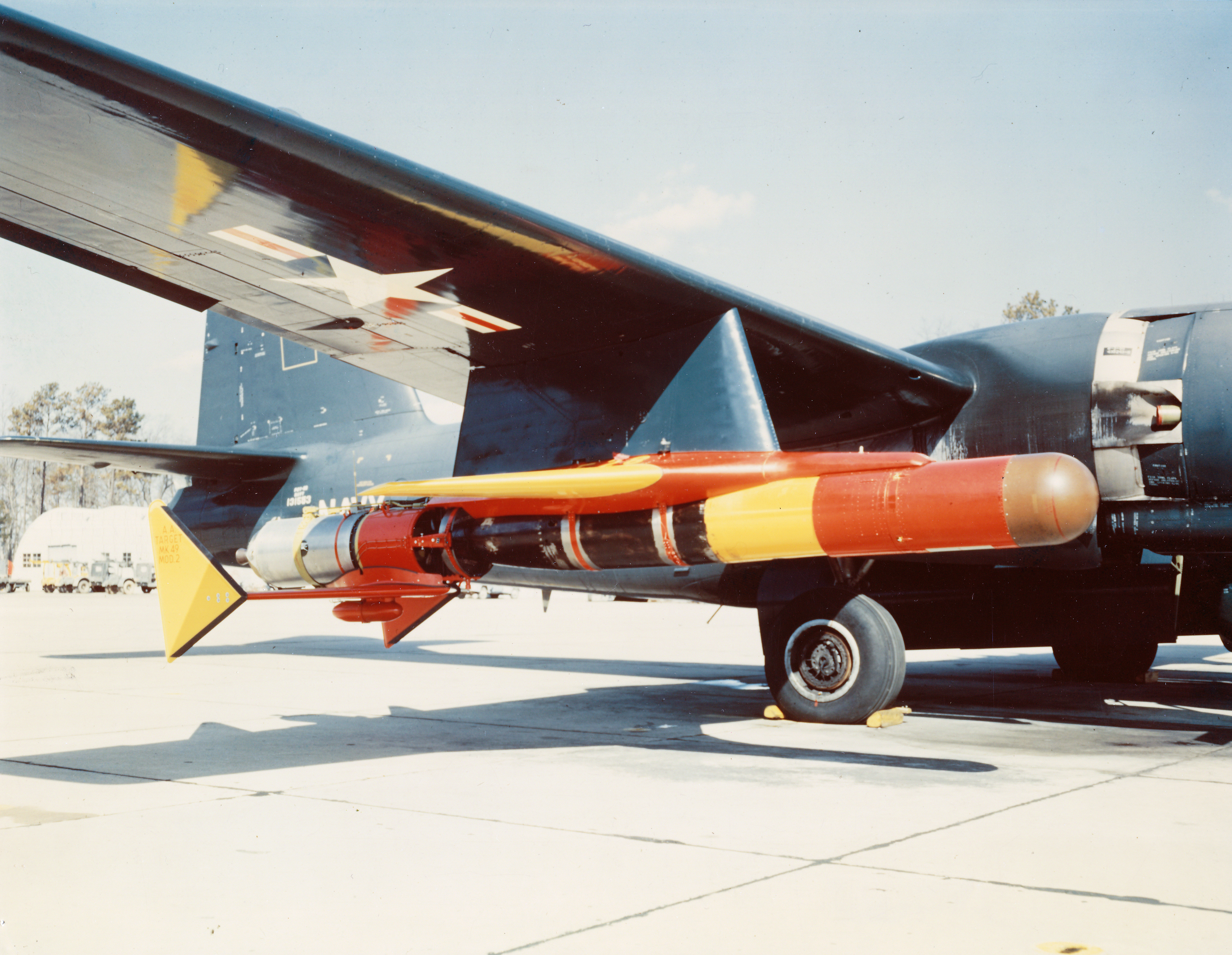 An AUM-N-2 "Petrel" torpedo-carrying missile carried underwing by a Lockheed P2V-6M "Neptune" patrol aircraft (BuNo 131553). The missile is labeled "AA target Mk 49 Mod 2" on the fin.